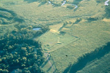 Aerial view of the Menoken Indian Village Site, a National Historic Landmark in Burleigh County, North Dakota, United States.